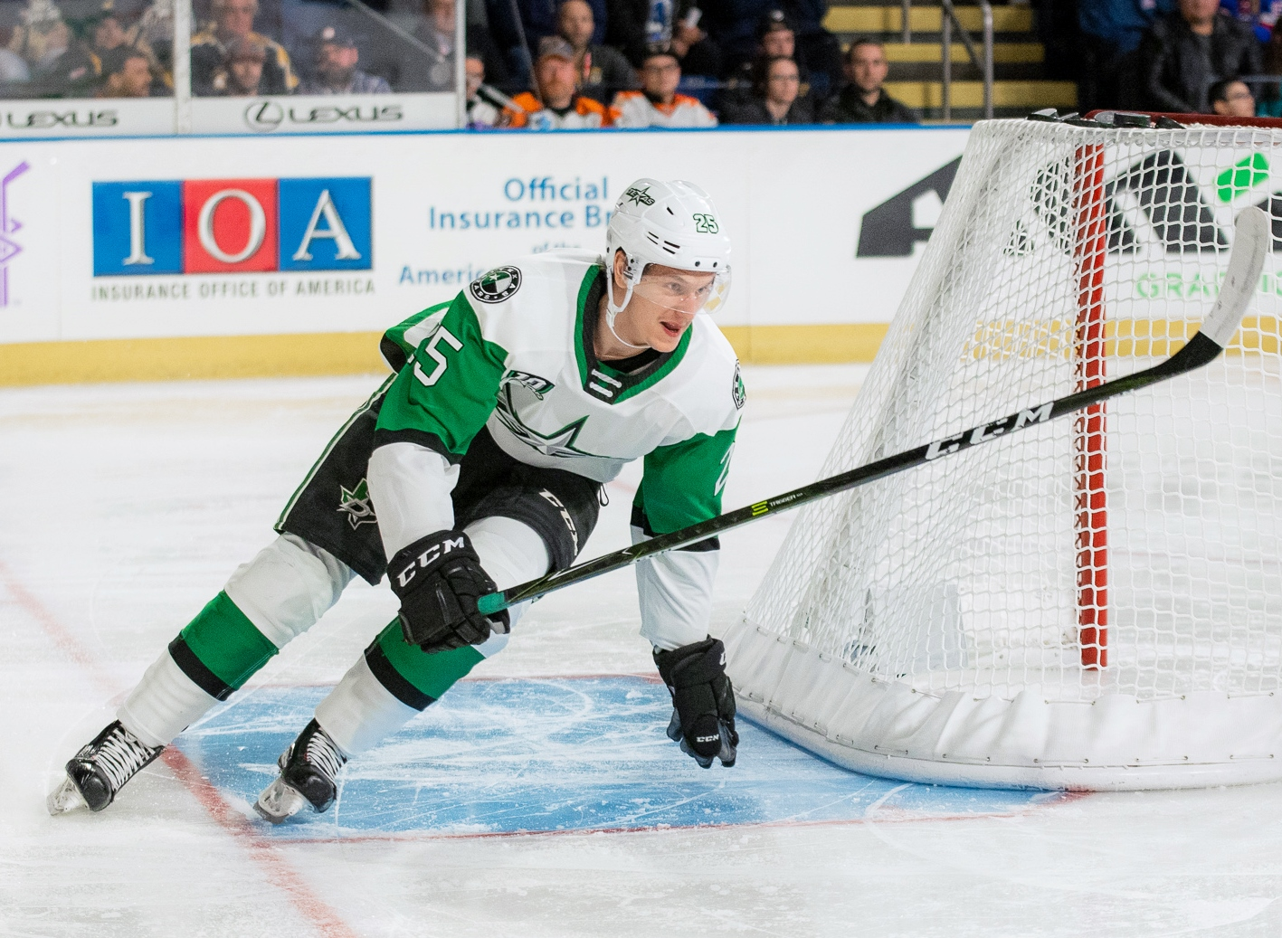 Photo By: China Wong